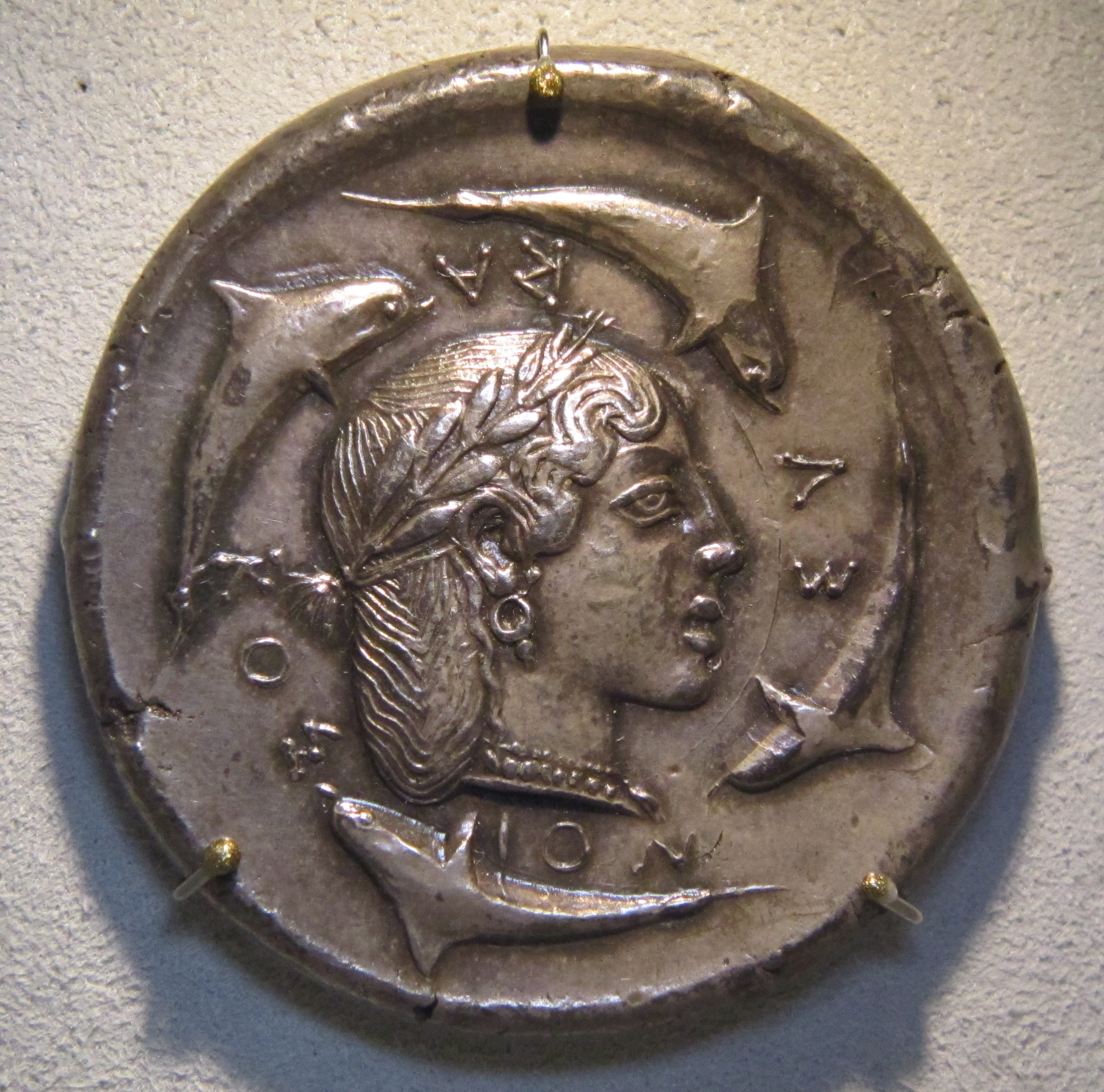 Sicily, Syracuse. during the tyranny of Gelo 485-478 BC. Demareteion (silver dekadrachm, known in antiquity w. this name) Head of nymph Arethusa r. w. aspect of queen Demarete. ΣΥΡΑΚΟΣΙΟΝ retrograde and four dolphins around The coin is related to Battle of Himera (480 BC)